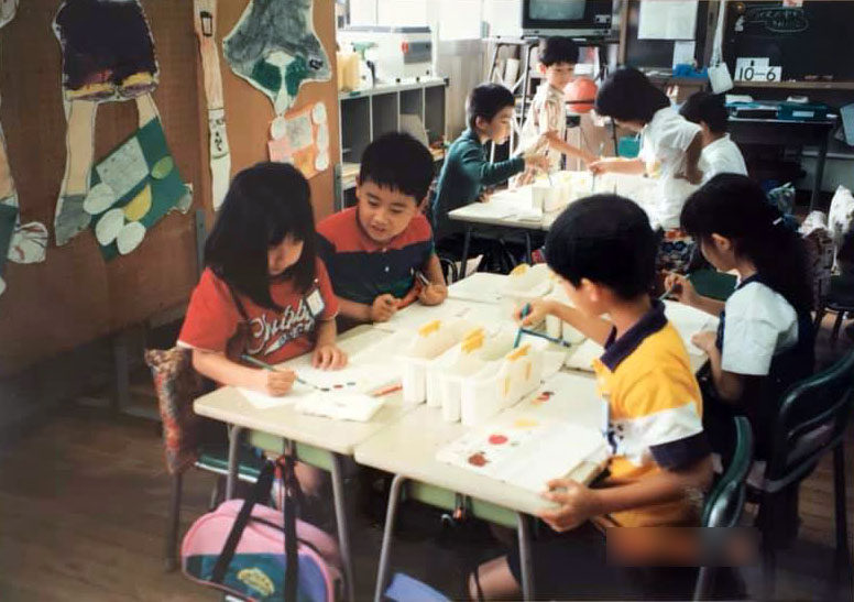 キミ子方式で最初に行う，三原色と白だけでできるだけたくさんの色を作る遊び。 小学校1年生の授業。 This is the first step for Kimiko-method.Making many colors made form only 3colors and white.They are students of ekementary school in Japan in1996.